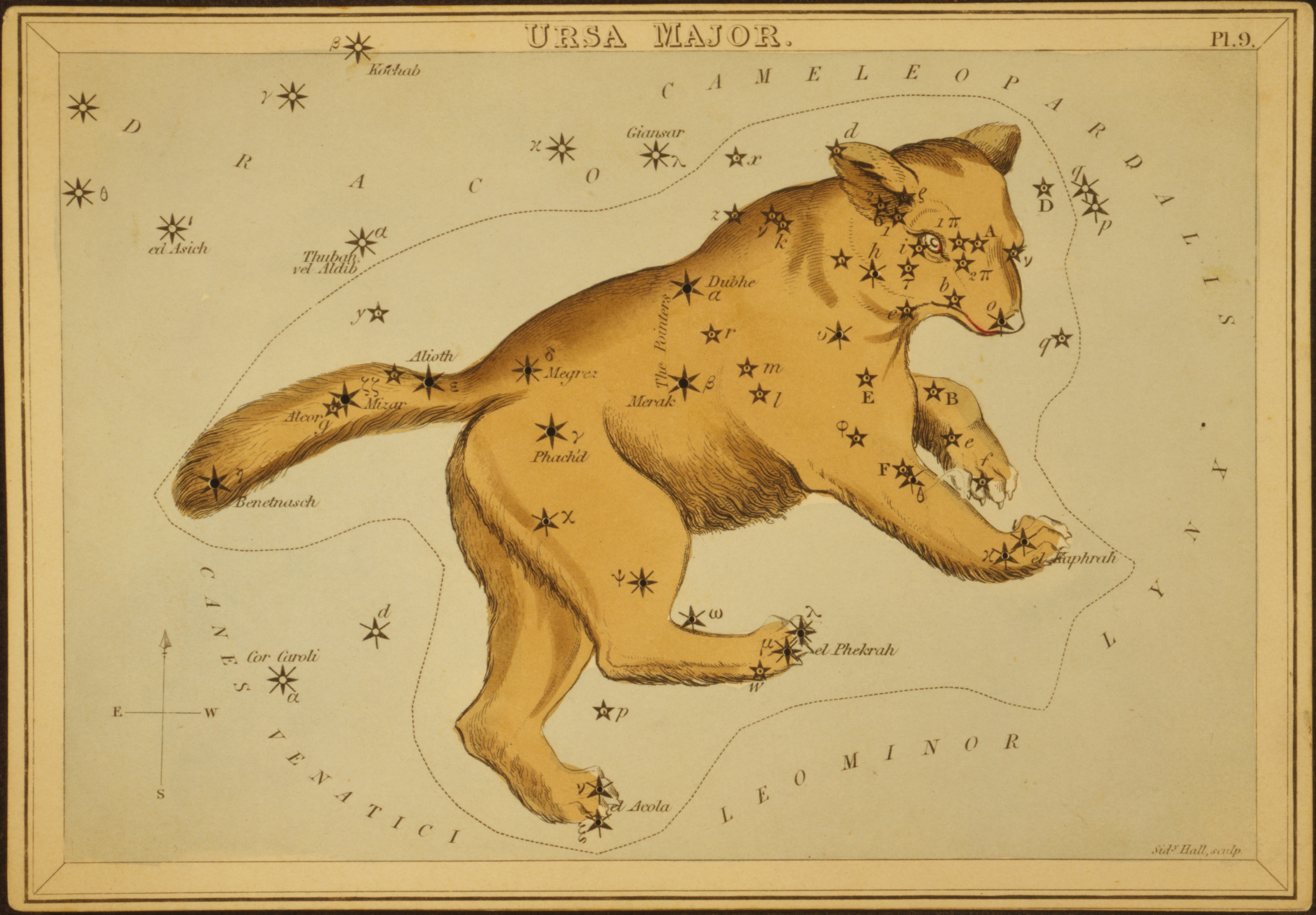 Ursa Major, Astronomical chart showing a bear forming the constellation. 1 print on layered paper board : etching, hand-colored.